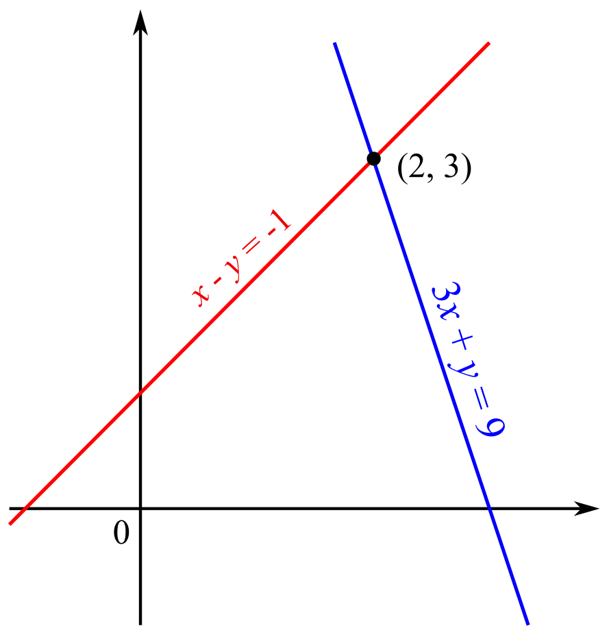 Intersecting lines